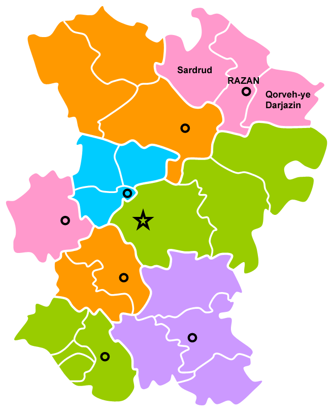 Razan sharestan Hamedan province, Administrative map